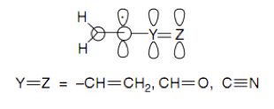 sadfsafds